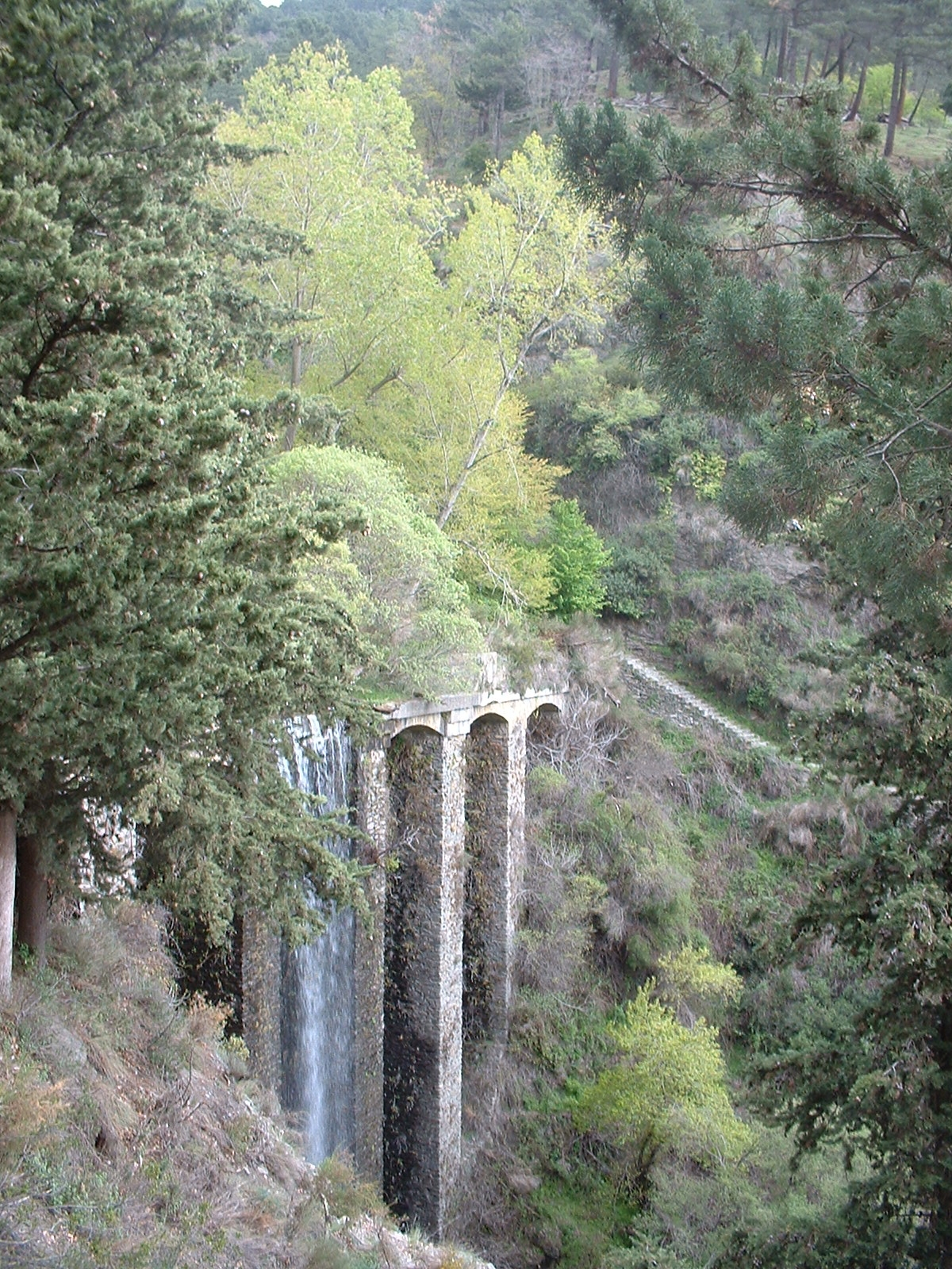 Dique 24, a dam on the Rio Chico between Cañar and Soportújar in the Alpujarras, Granada, Spain